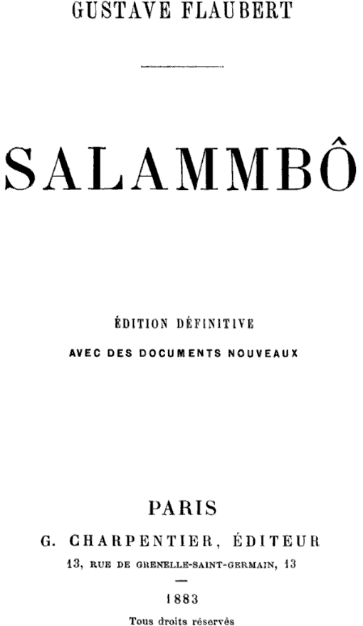 Title page from Salammbô by Gustave Flaubert (1821-1880)